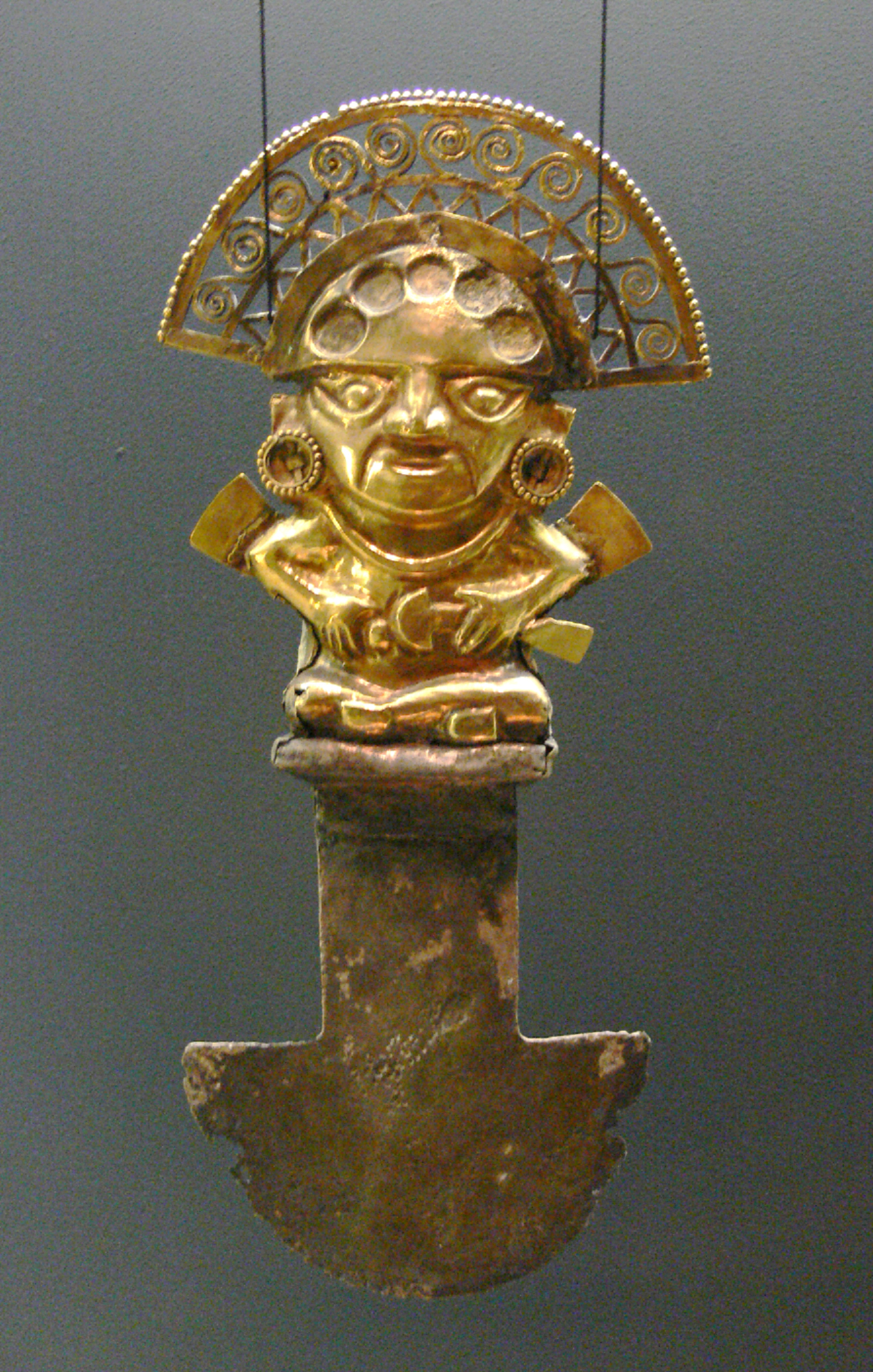 Ceremonial knife (tumi) from Sicán in Peru. 850-1050 AD; Ethnological Museum, Berlin, Germany